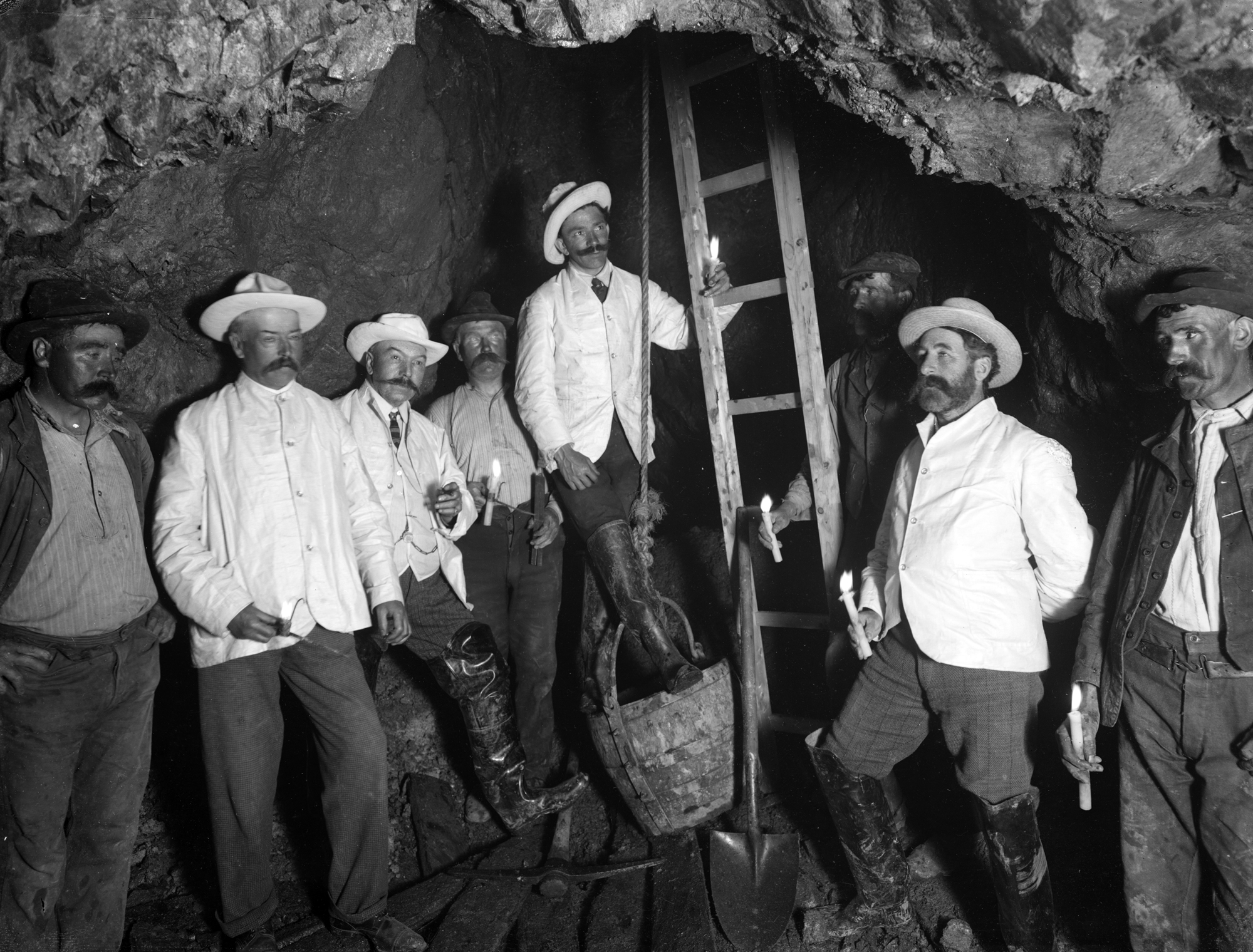 Men at Bonmahon Mines County Waterford early 1900s (believed to be 1906). NLI Ref.: P_WP_1570